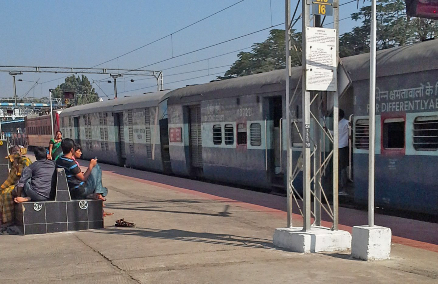 Howrah bound Amaravati Express at Vizianagaram